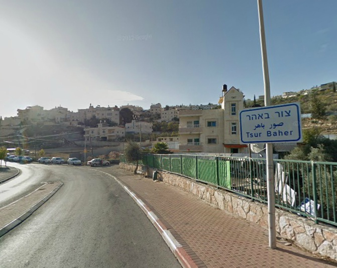 SurBaher